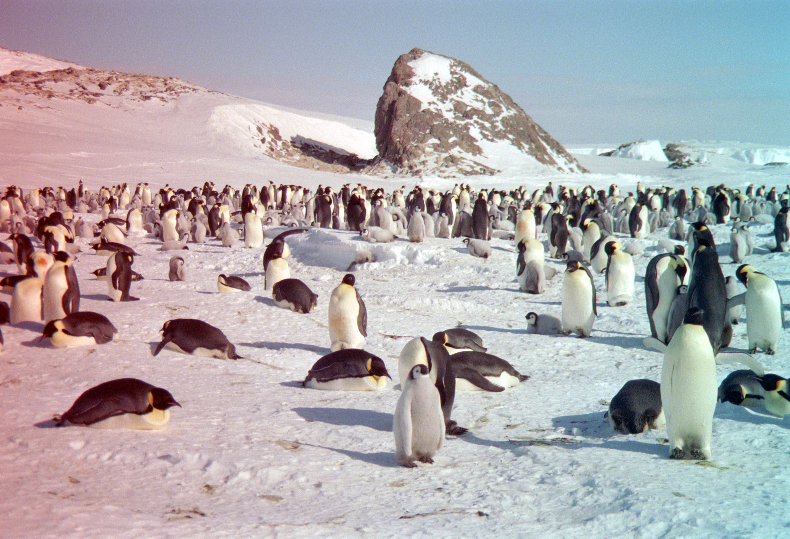 Anaglyphic picture (3D, using cyan-red filters) of a group of Emperor penguins with chicks. The rock known as the Tour de Pise is in the background.